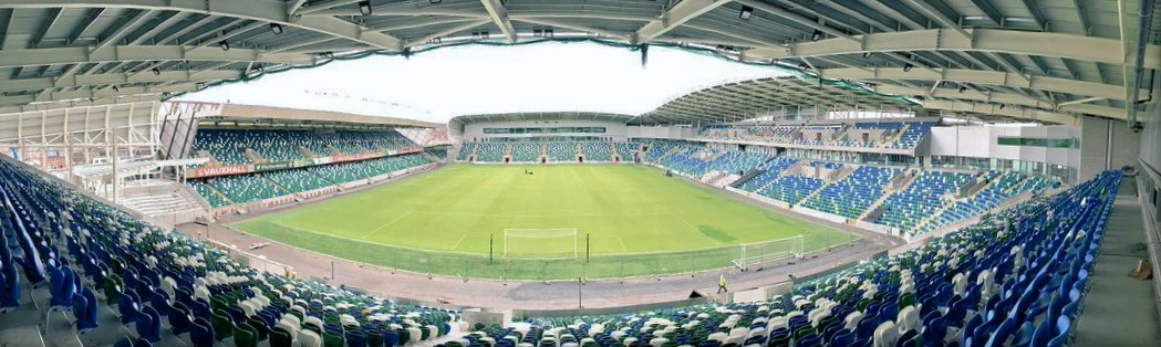 An internal view of the Windsor park stadium redevelopment as it nears completion.